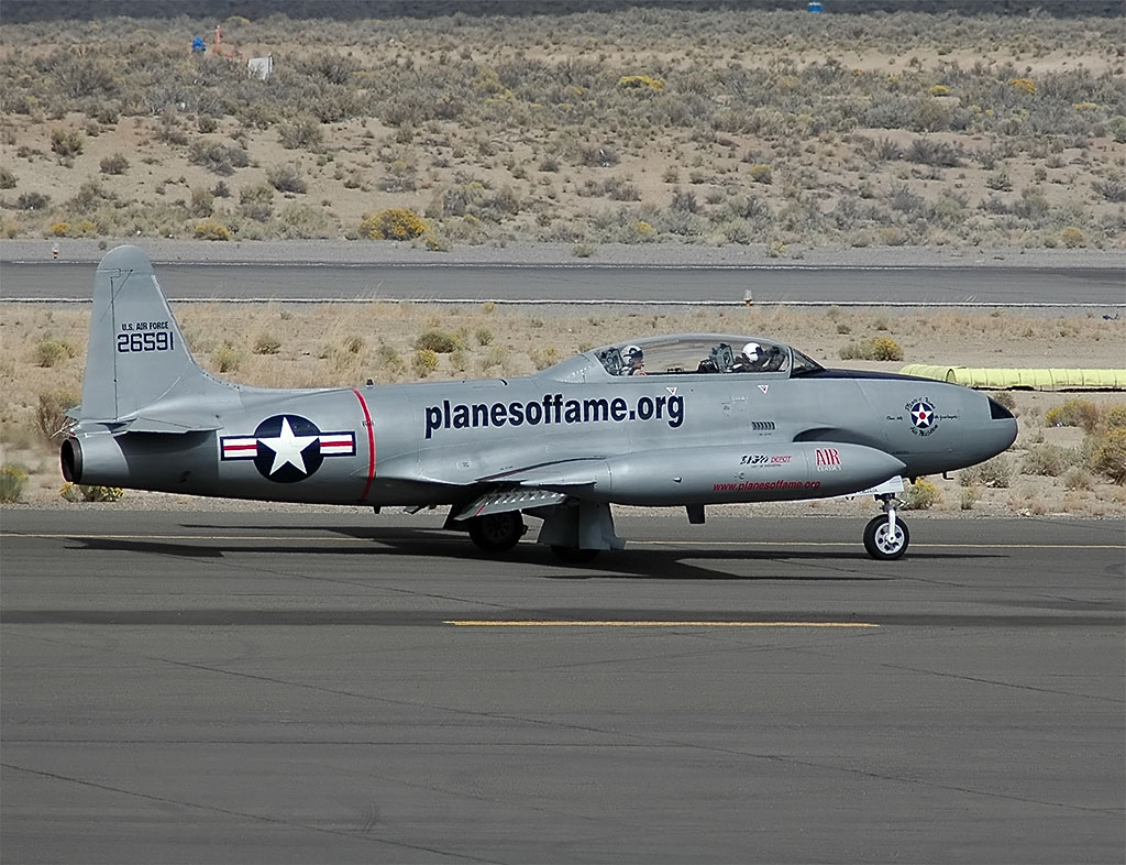 Lockheed T-33 Shooting Star, 19.09.2004, Reno/Nevada